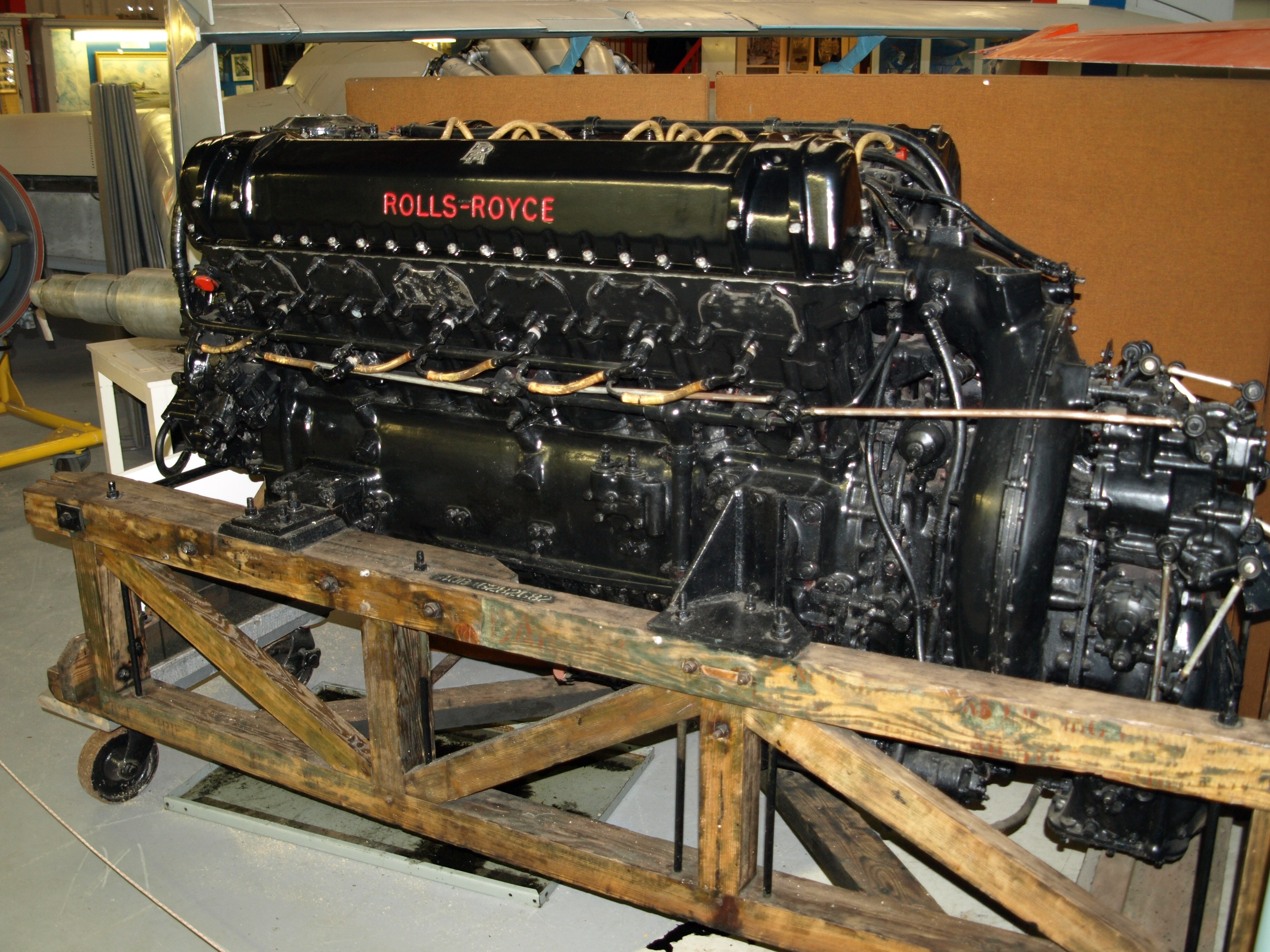 Rolls-Royce Griffon aero engine at the Midland Air Museum, Coventry